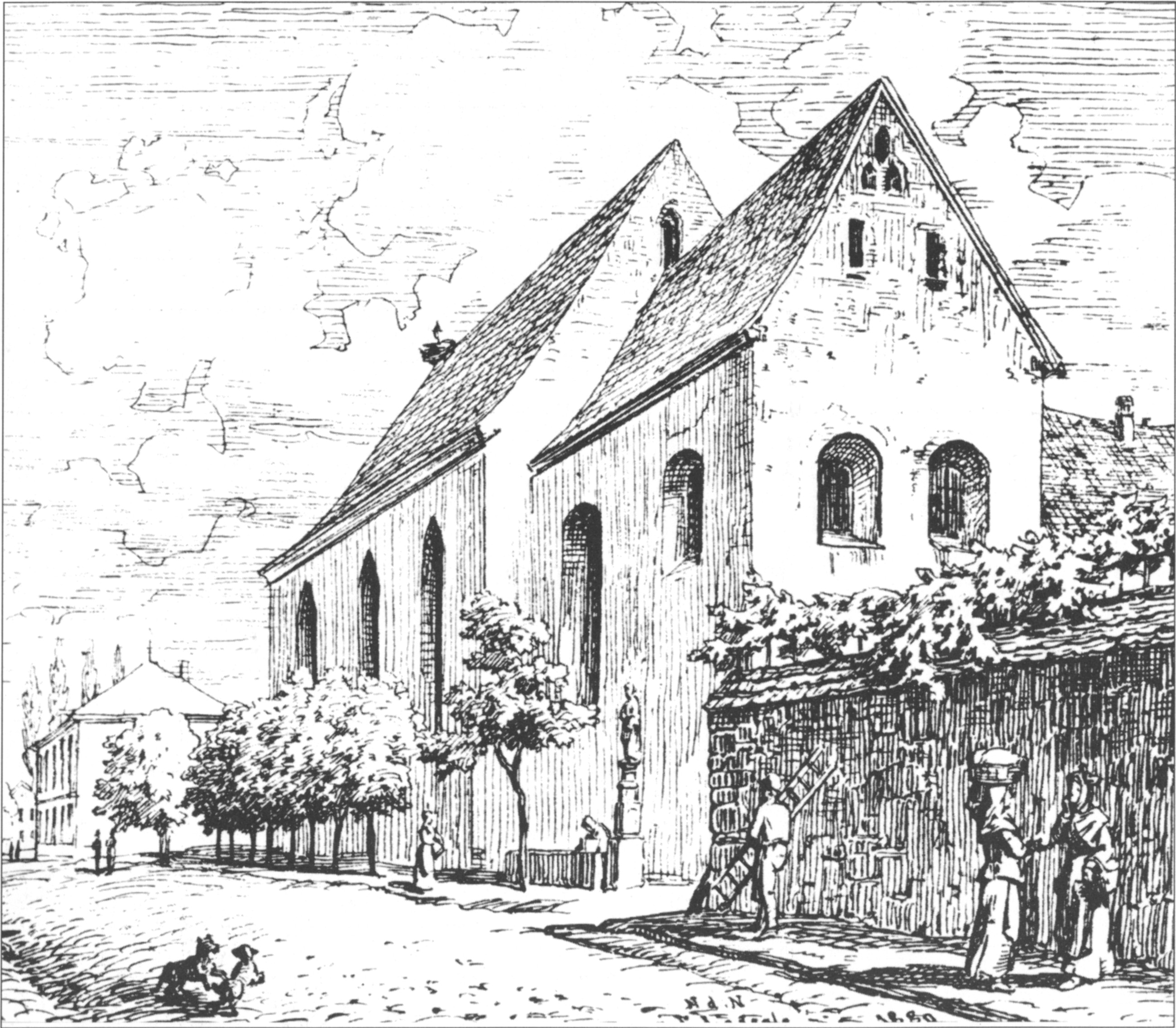 Church of Franciscan monastery in Kenzingen, Baden-Württemberg, Germany, in 1880